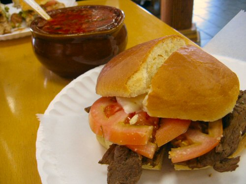 Chacarero sandwich